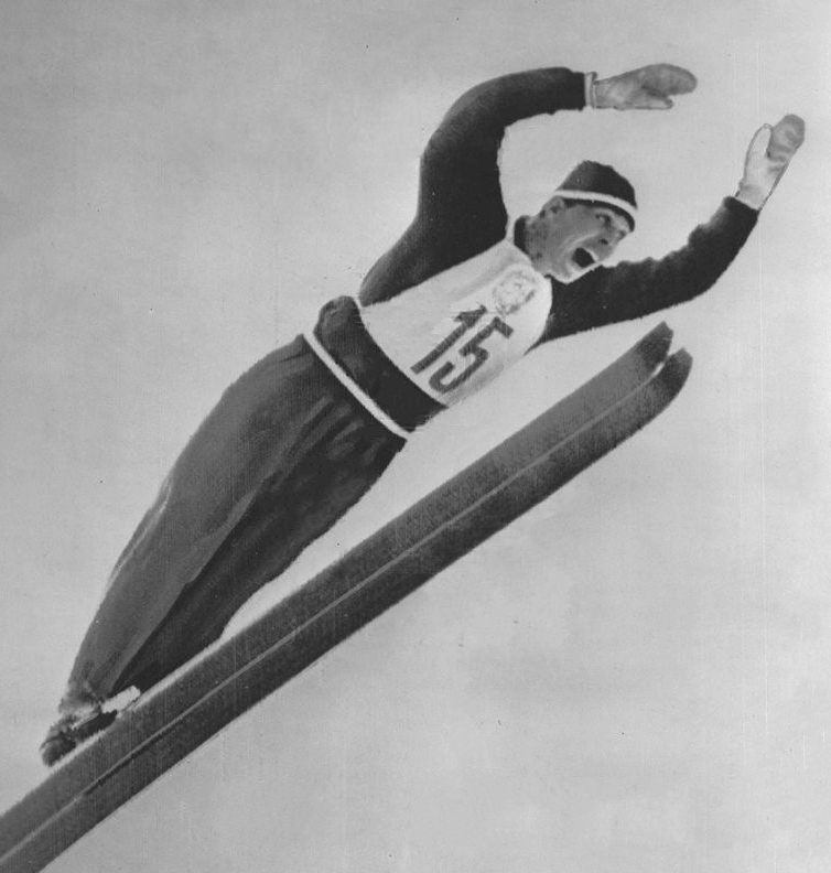 1956 Press Photo MOSCHKIN, SCREAMING EAGLE OLYMPIC NAR